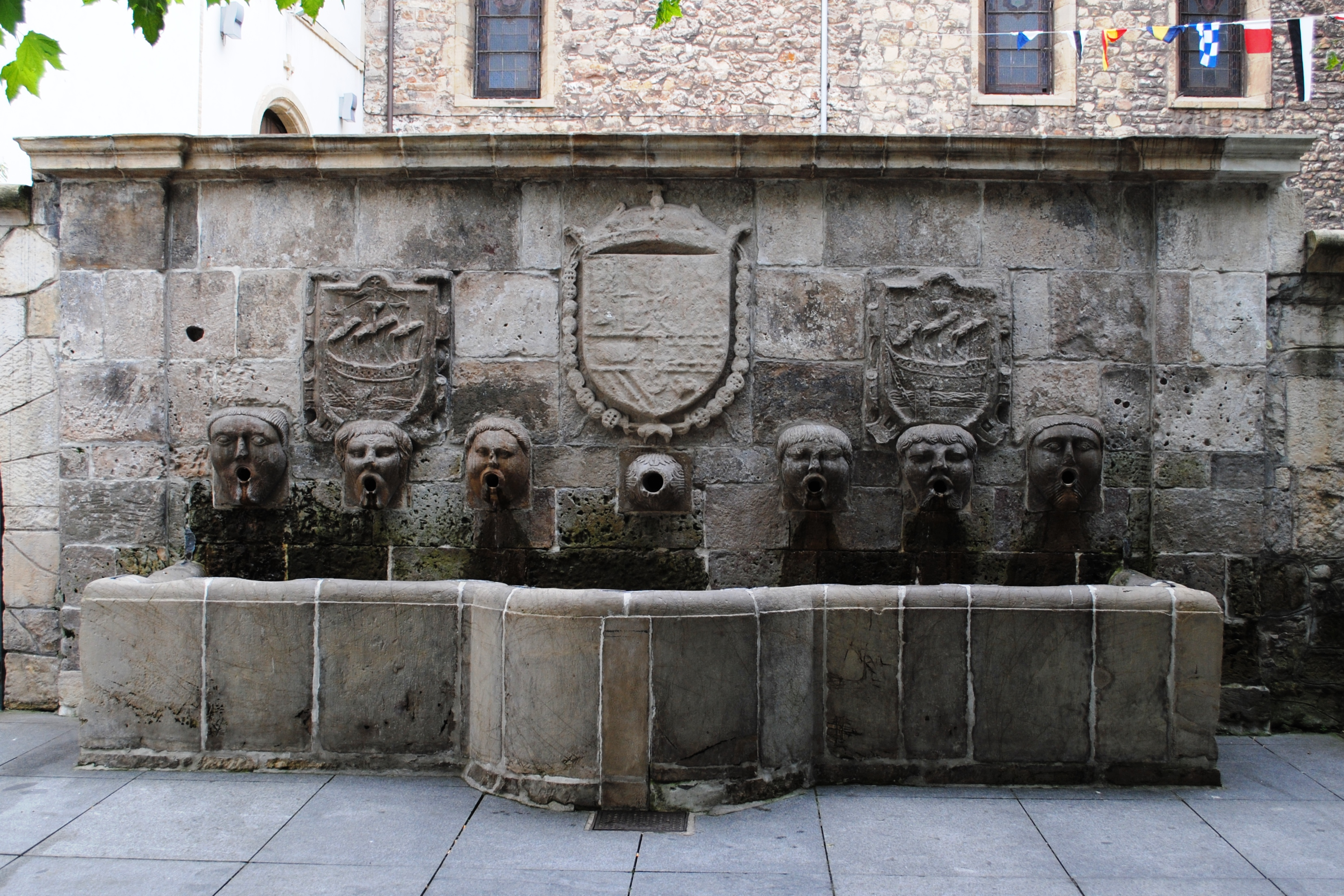 See title.